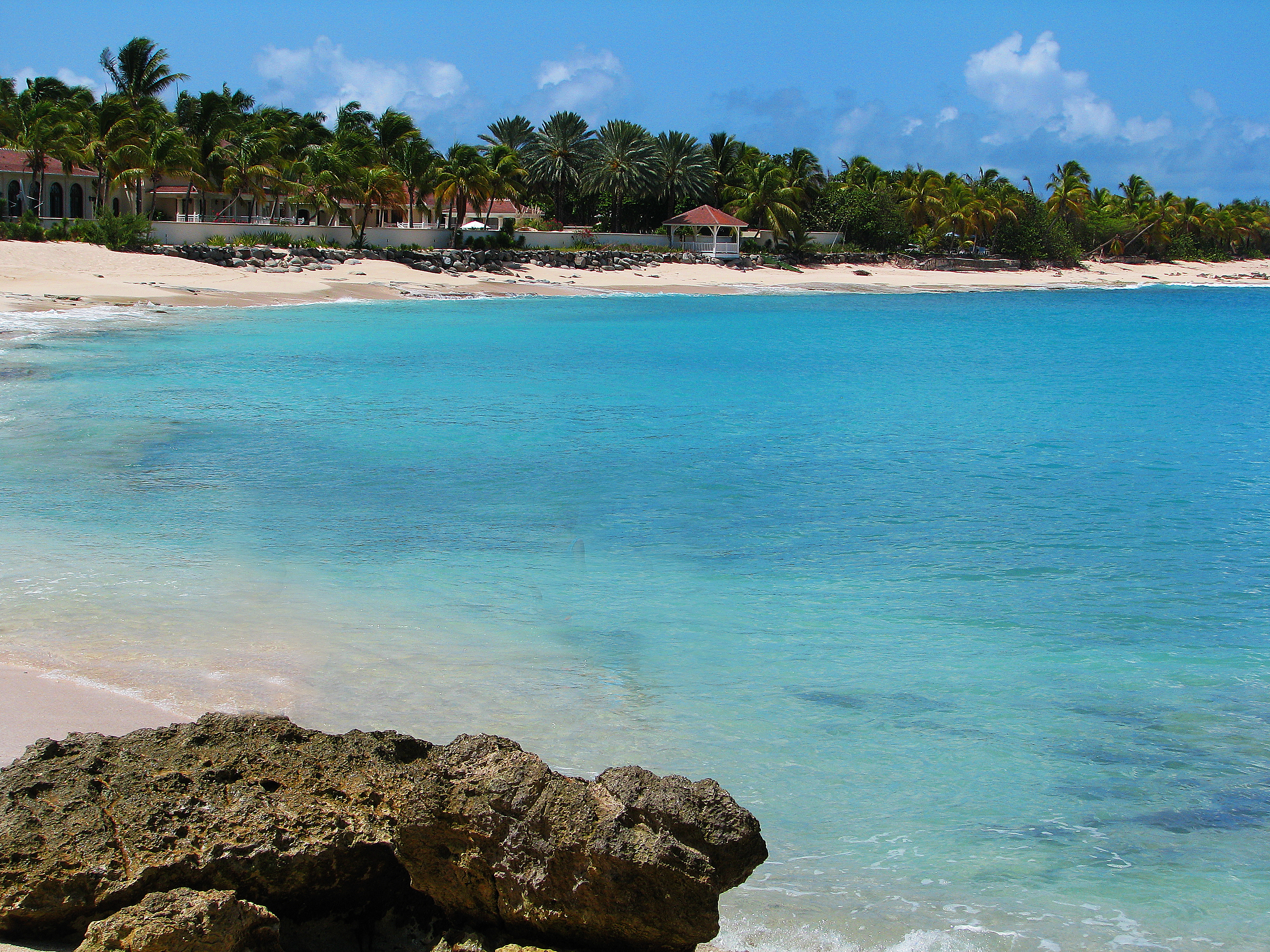 No question, Plum Bay (Baie aux Prunes) is a nice place to stay. However, it is difficult to get to and hard to locate on a map, but it is definitely worth the trip.